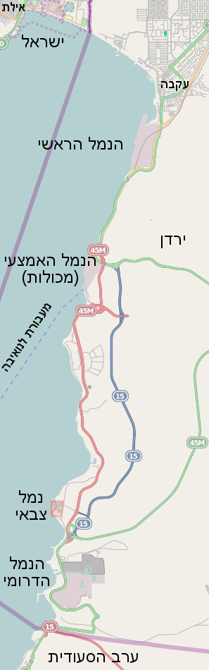 Port of Aqaba Map